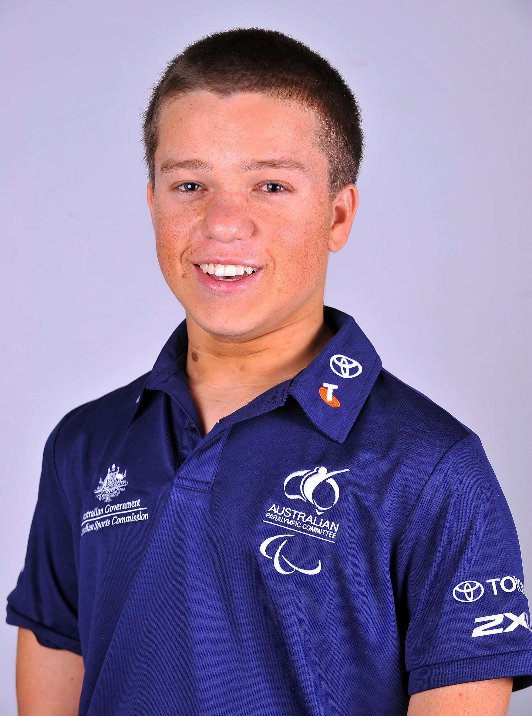 Portrait of Australian swimmer Reagan Wickens, 2012 Australian Paralympic (shadow) Team athlete